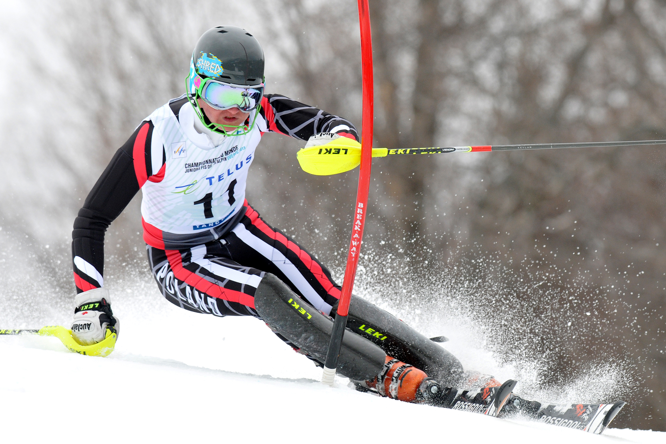 Michał Jasiczek - Junior World Championships in Quebec